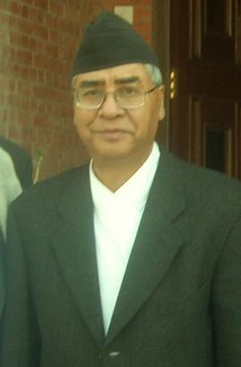 photo of Sher Bahadur Deuba